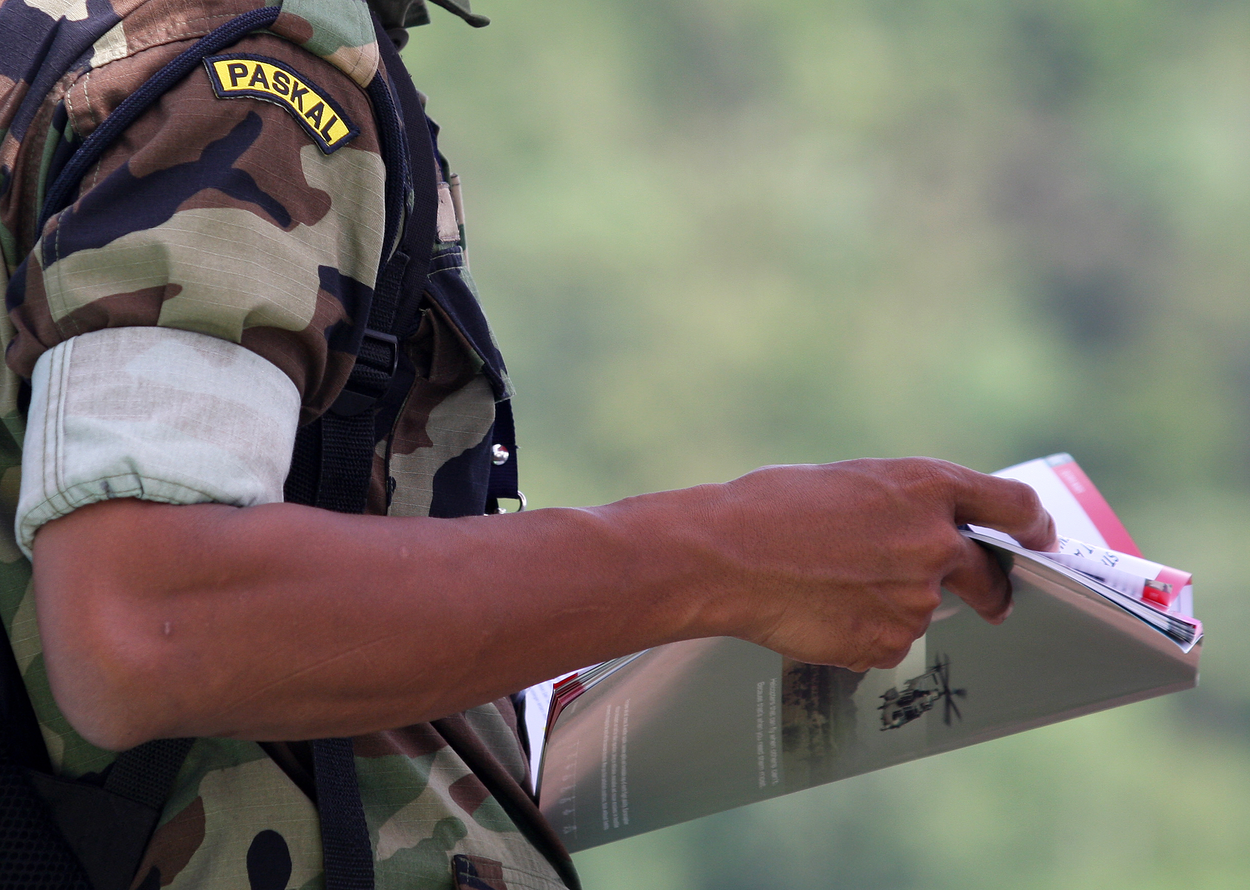 The PASKAL officer of Royal Malaysian Navy having some free time reading the PERAJURIT local defense magazine during the Maritime Section of LIMA '09. He's worn a PASKAL Commando flash, navy blue lanyard and US Woodland Camouflage uniform, the same camouflage worn by the US Navy SEALs.